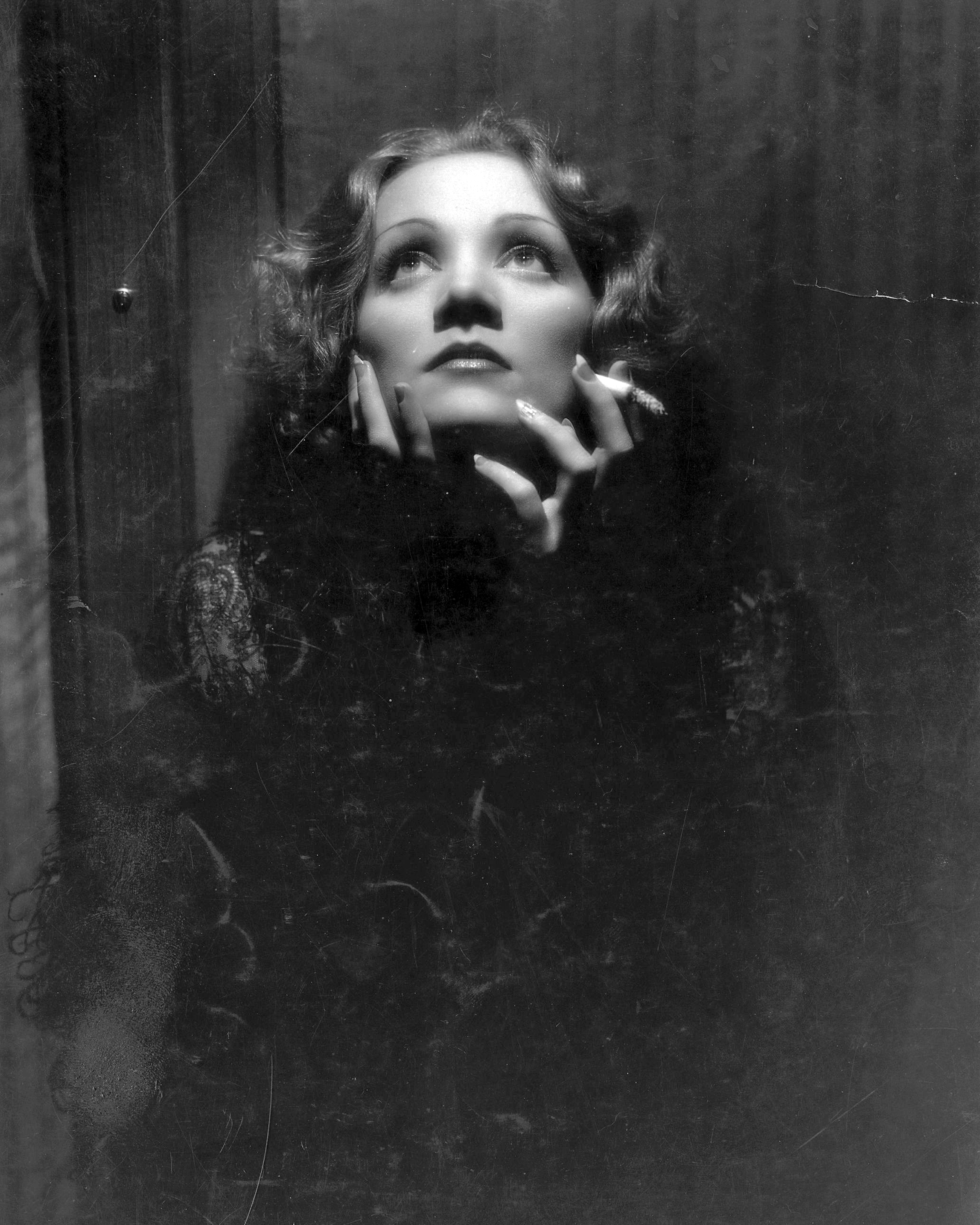 Publicity photo of Marlene Dietrich for the film Shanghai Express (1932).